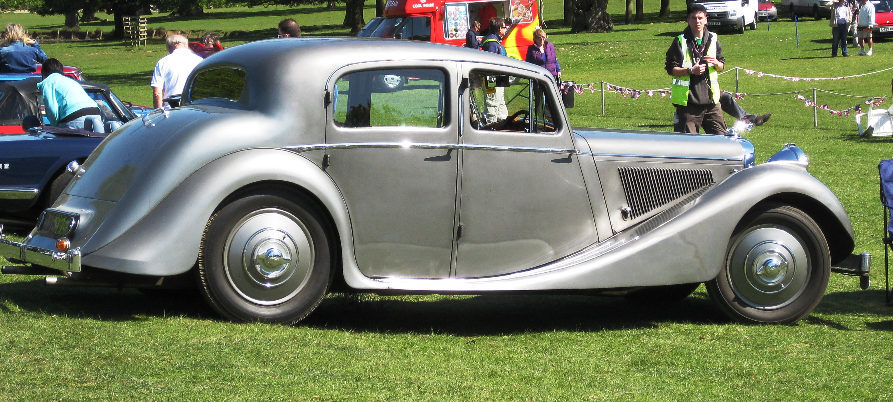 Jaguar 2½ litre, sometimes known, retrospectively, as the Jaguar Mk IV.